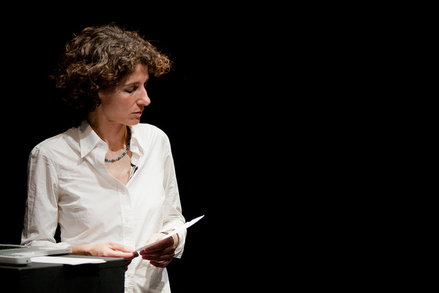 Marina Garcés